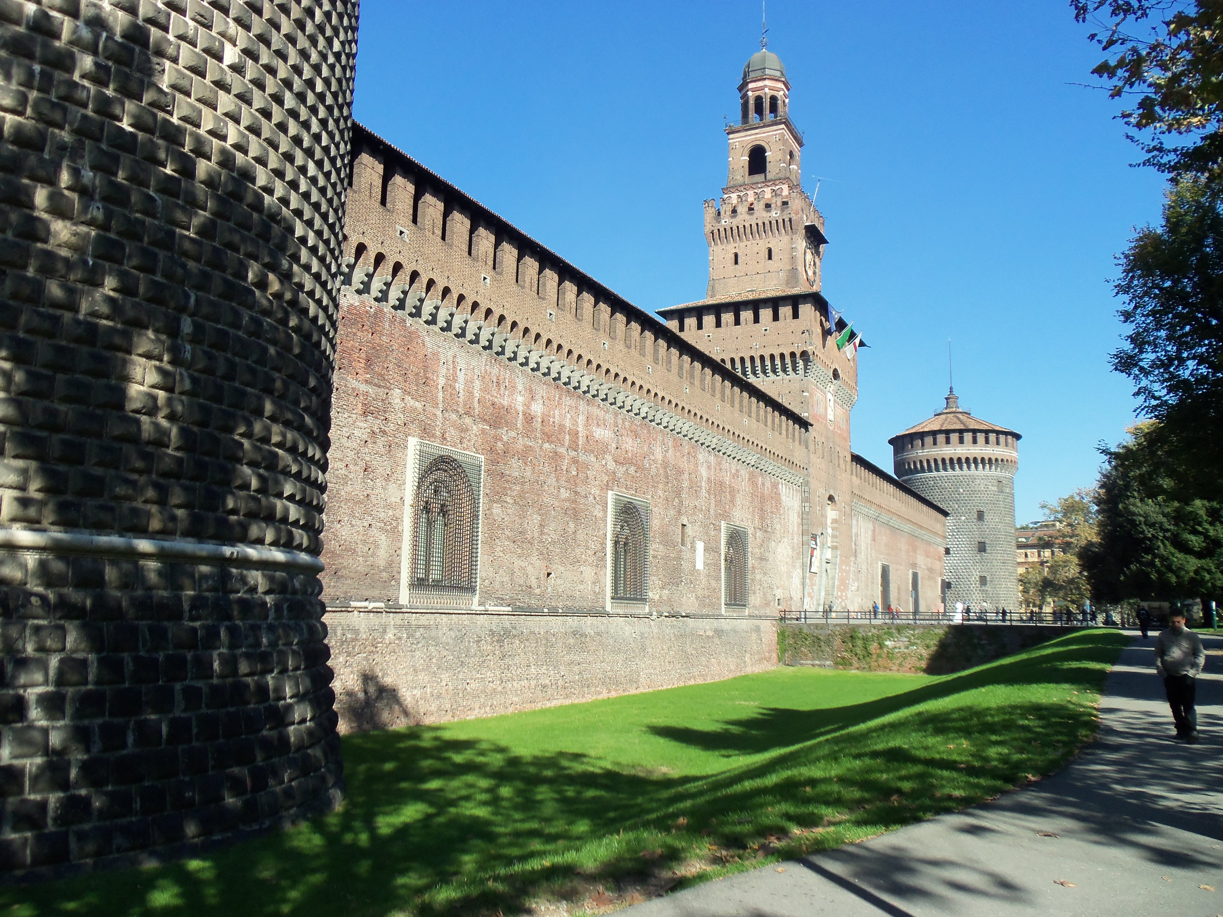 Facade with the Torre del Filarete